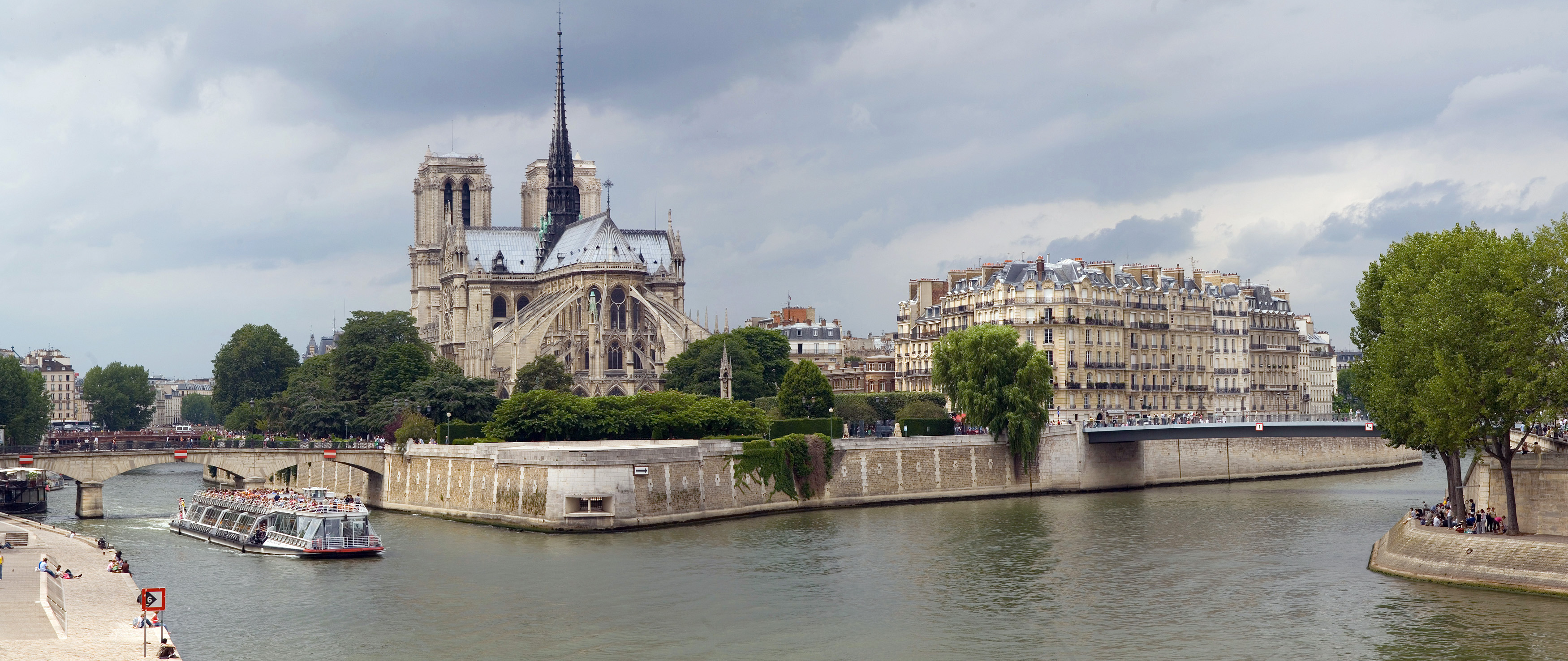 A four segment panorama of Notre Dame de Paris on Île de la Cité.